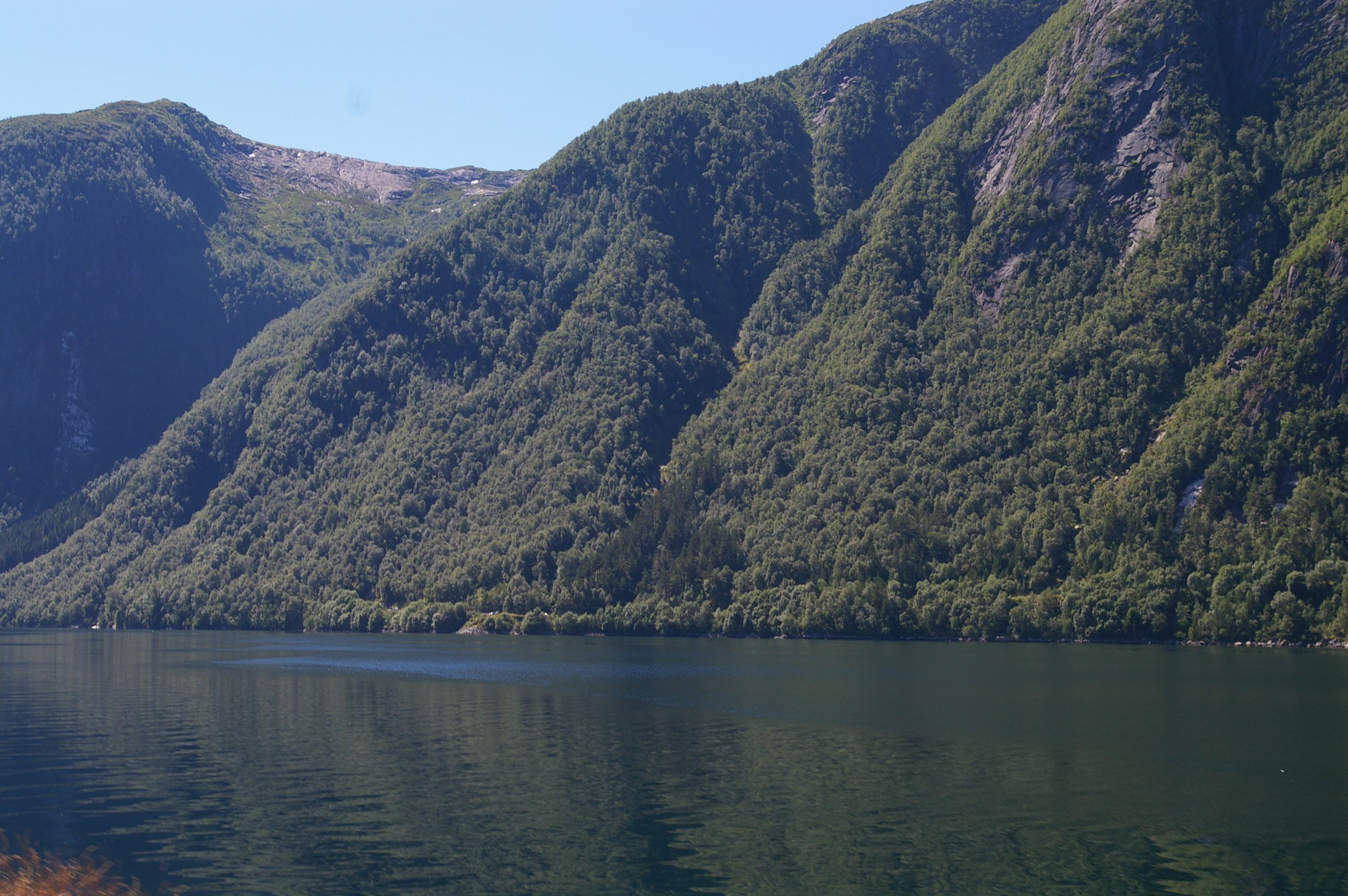 Risnefjorden on the southern side of Songefjorden in Gulen, Norway.